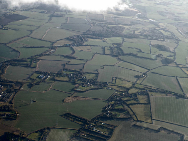 Stocking Pelham from the air